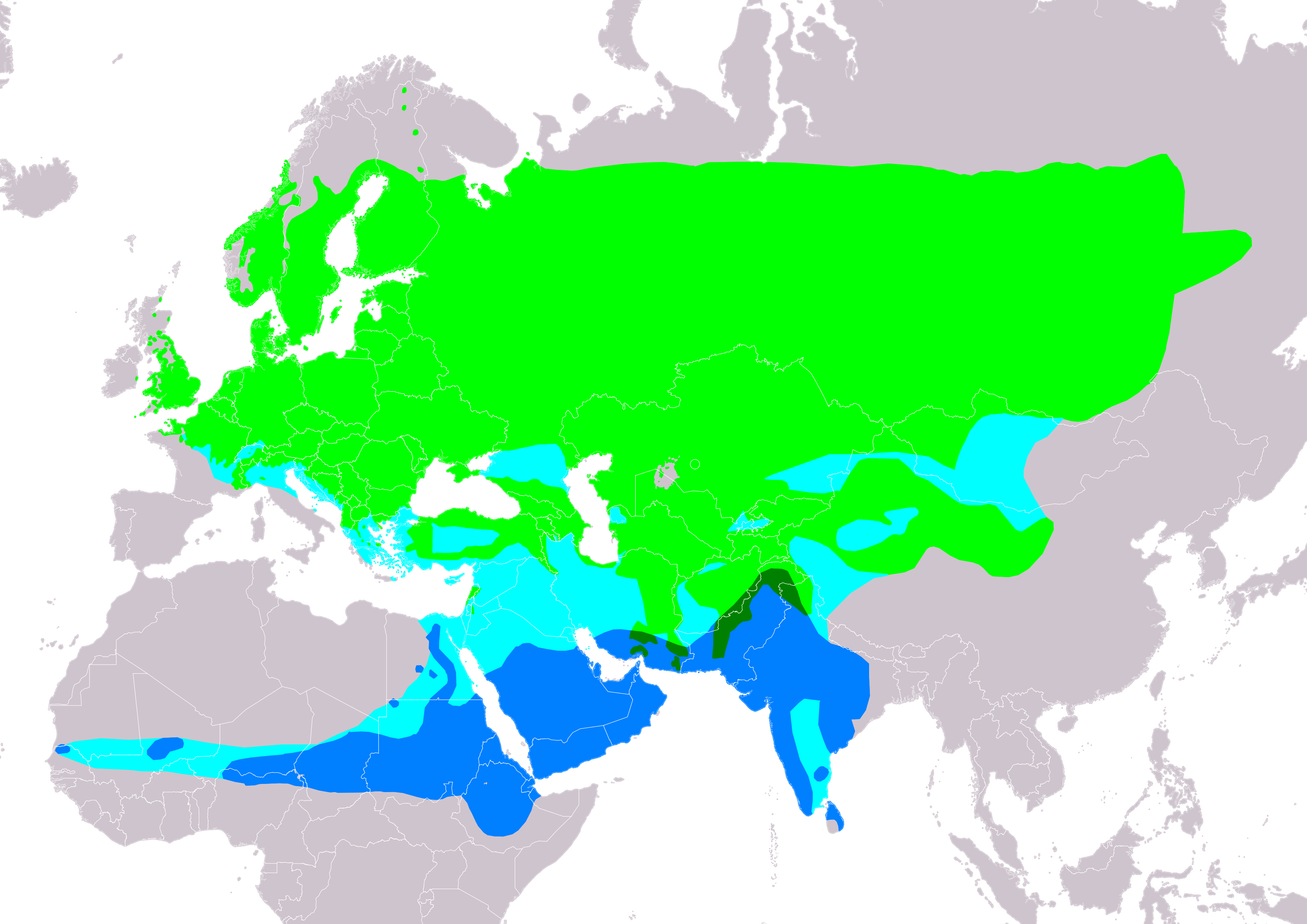 Distribution map of lesser whitethroat (Sylvia curruca) according to IUCN version 2020.1 (compiled by: BirdLife International and Handbook of the Birds of the World (2019) 2018.); key: Legend: Extant, breeding (#00FF00), Extant, resident (#008000), Extant, passage (#00FFFF), Extant, non-breeding (#007FFF)